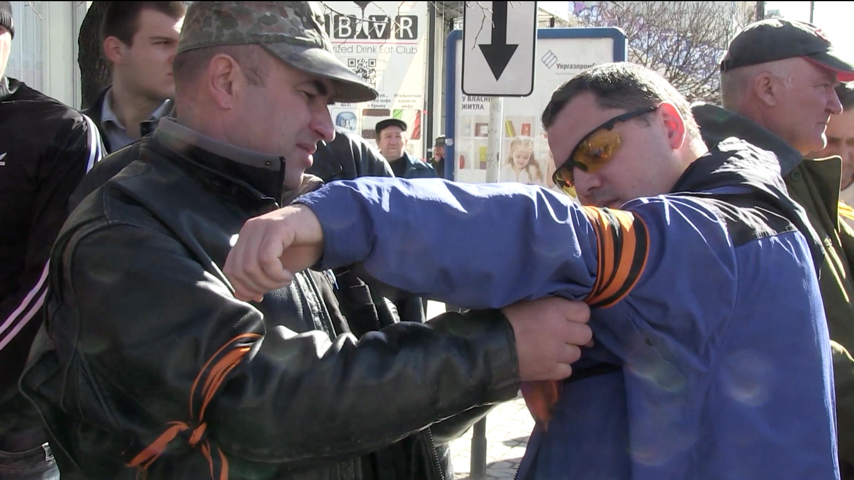 A man attaches a pro-Russian arm band to a another man joining a “Self Defense” group outside parliament in Simferopol, March 3, 2014 (Sebastian Meyer/VOA)